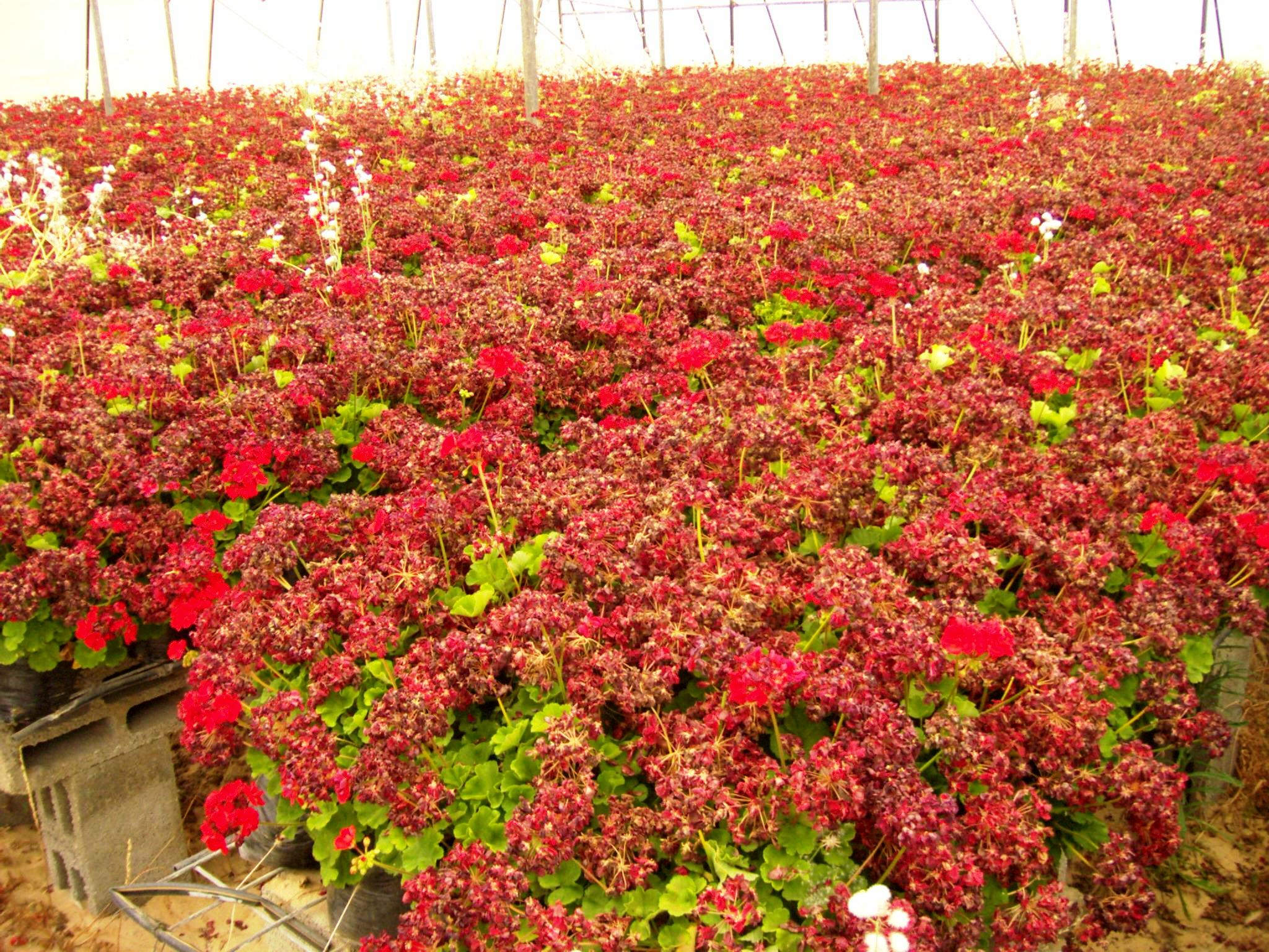 Geranium_from_gush_katif